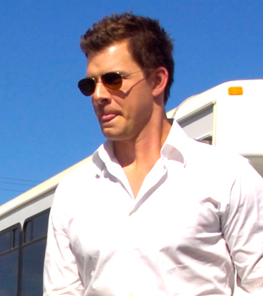 Eric Mabius, actor from the television show “Ugly Betty,” enters Joint Task Force Guantanamo’s Camp 4 during his tour of the JTF’s detention facilities, June 9. Mabius displayed his gratitude to Troopers by shaking hands and signing autographs in between camp tours as part of their United Service Organization visit.